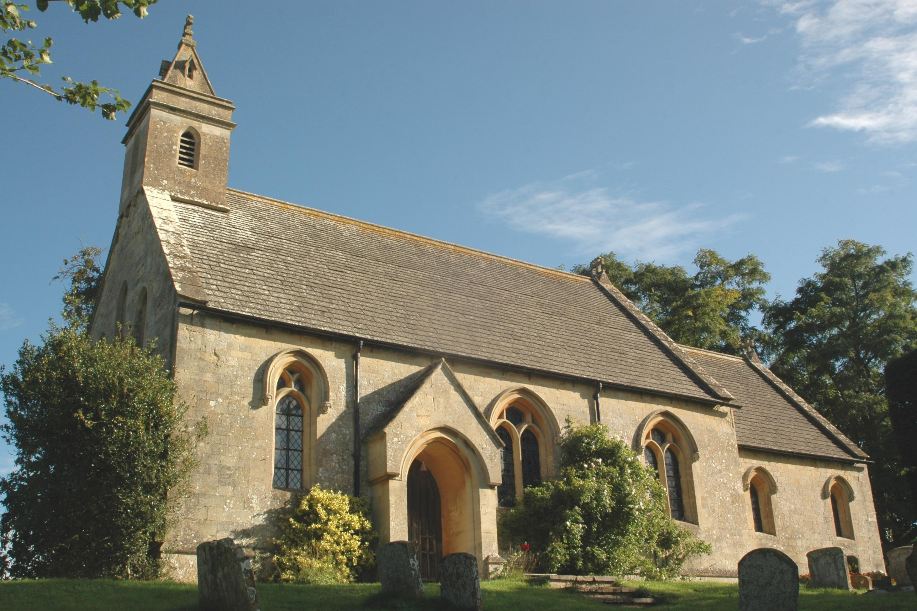 Church of England parish church of St Helen, Albury, Oxfordshire, viewed from the south-west